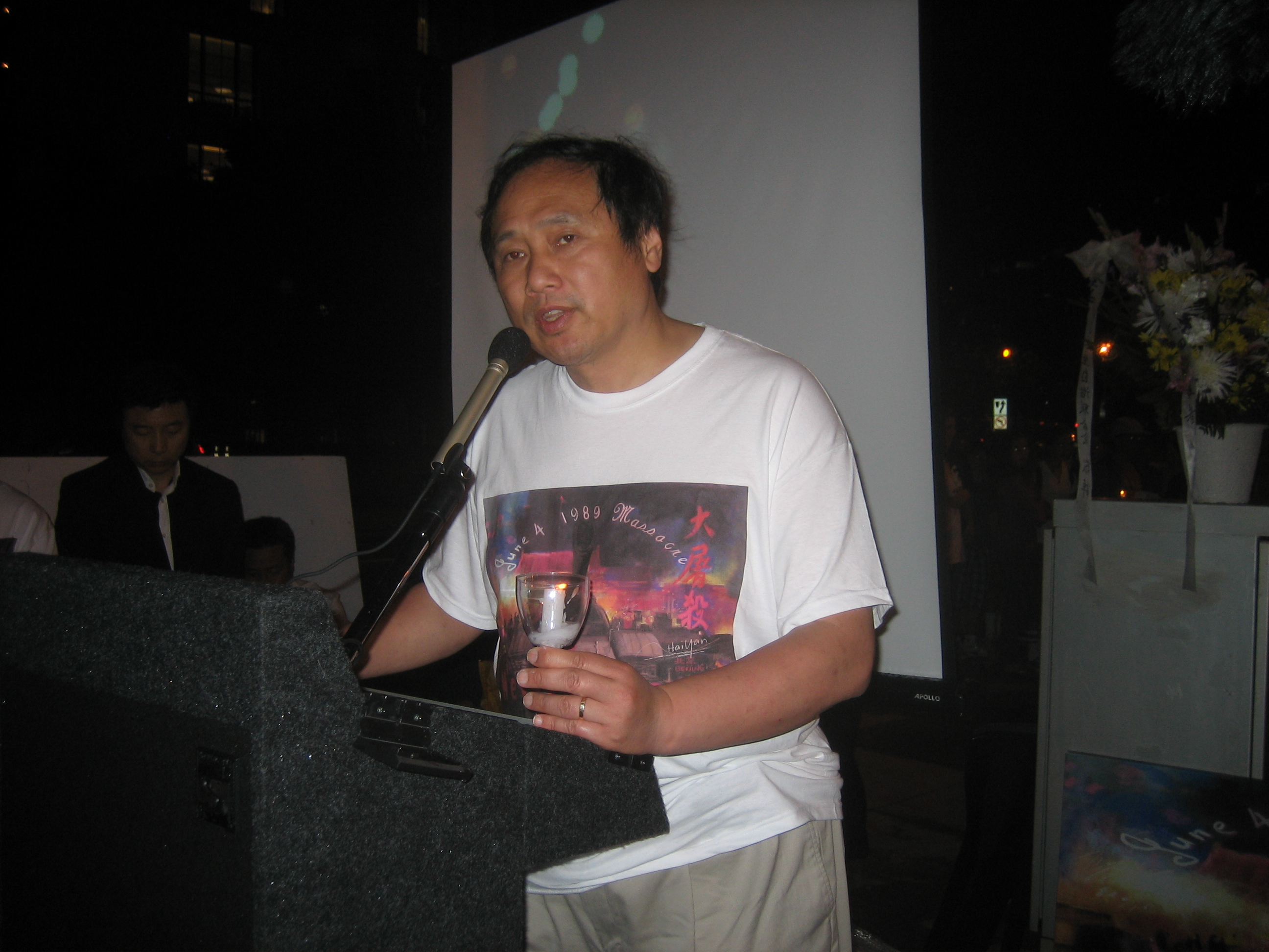 Wang Juntao gave an impassioned speech, the longest of anyone, and without any notes.